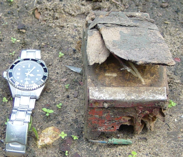 This is a photo of Jony95 AP mine used in Sri Lanka. Wrist watch is to compare the size of the land mine